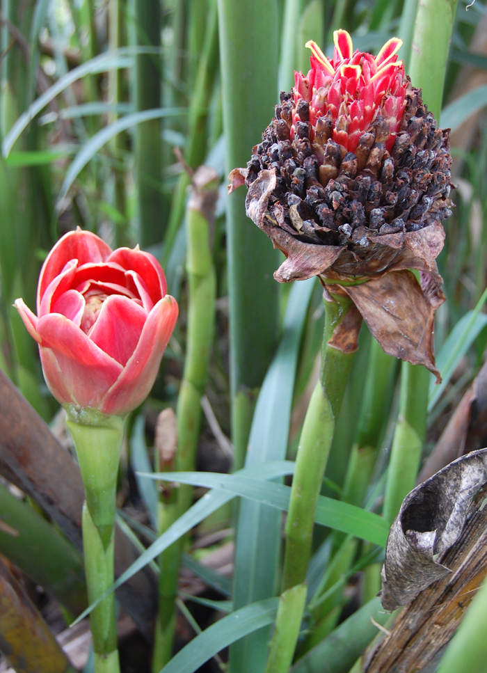 Torch ginger Etlingera hemisphaerica, old and new flower. Darmaga, Bogor, West Java.